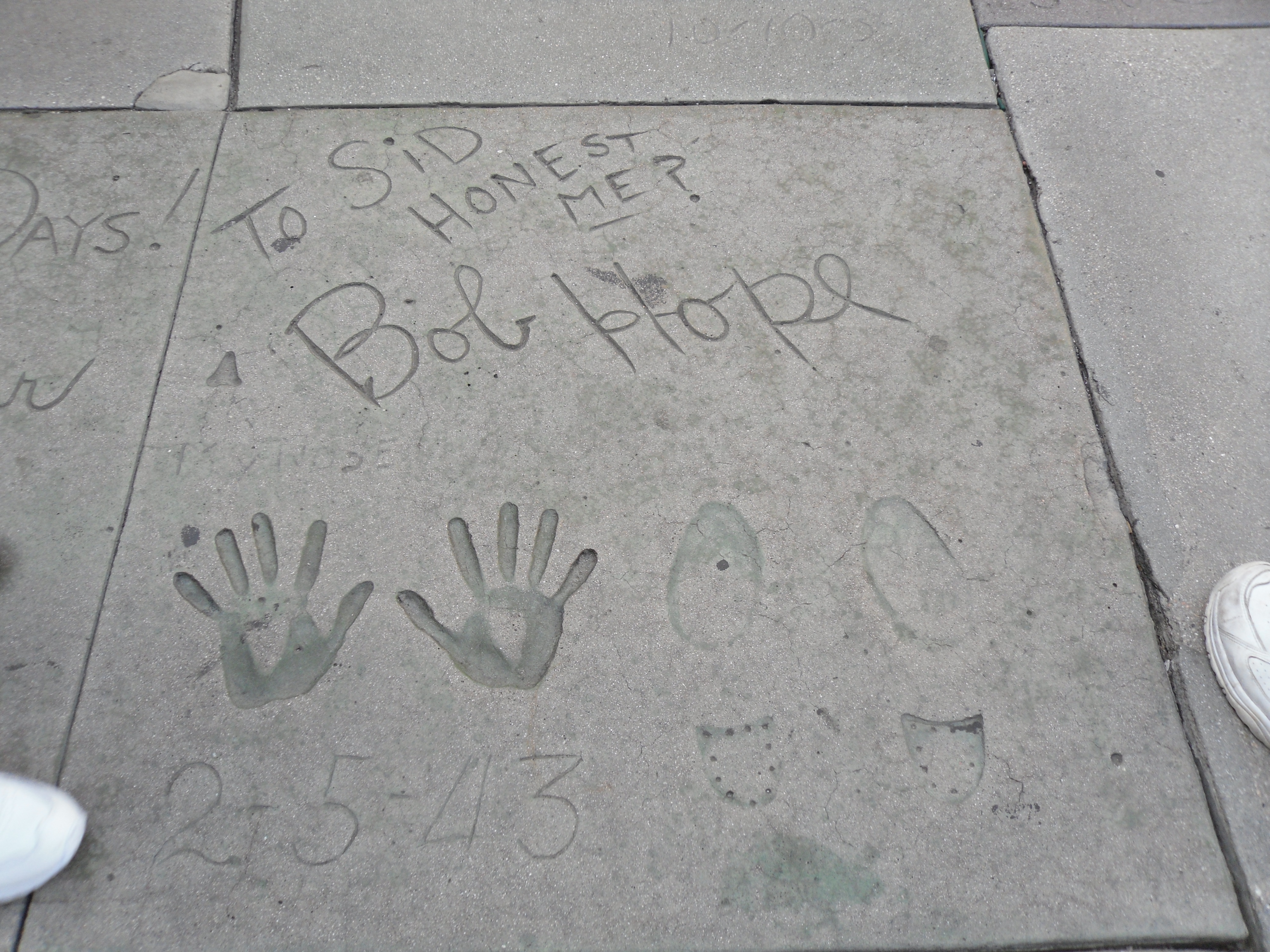 Bob Hope's signature at Grauman's Chinese Theatre